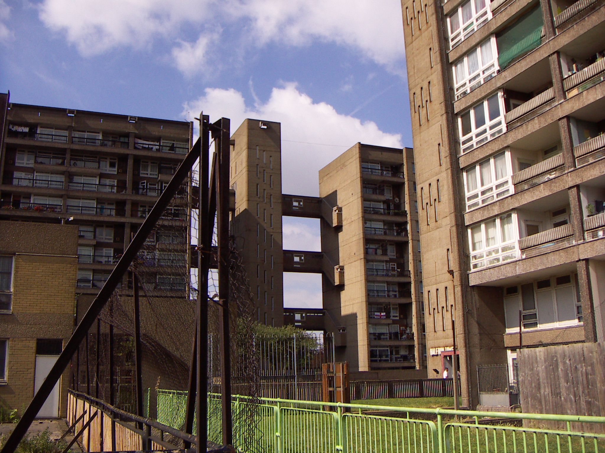 Carradale House, Brownfield estate, Poplar, East London. Photo by John Arundel, July 2005.